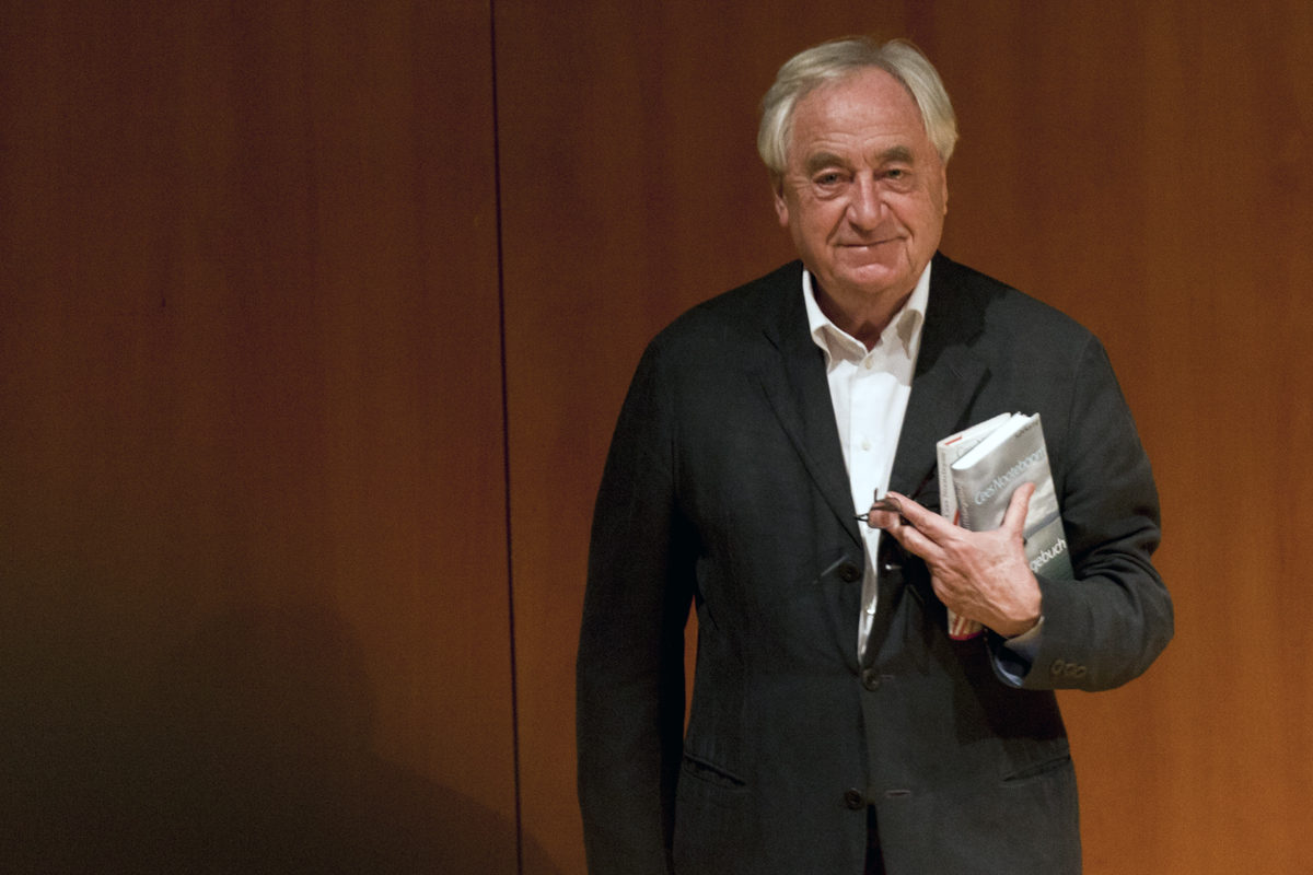 Dutch writer Cees Nooteboom at Cologne, 2011